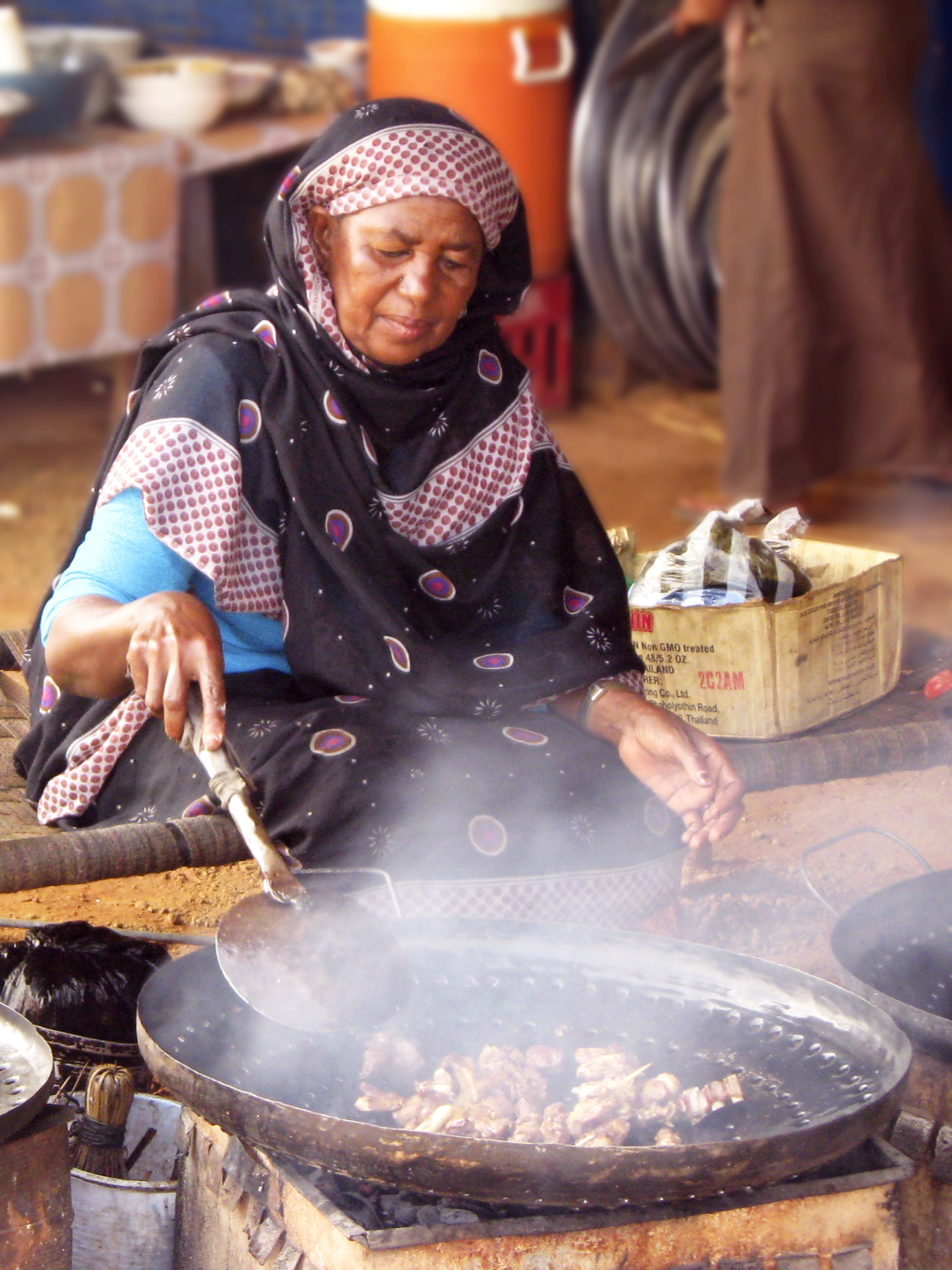 Woman preparing food, Sudan.